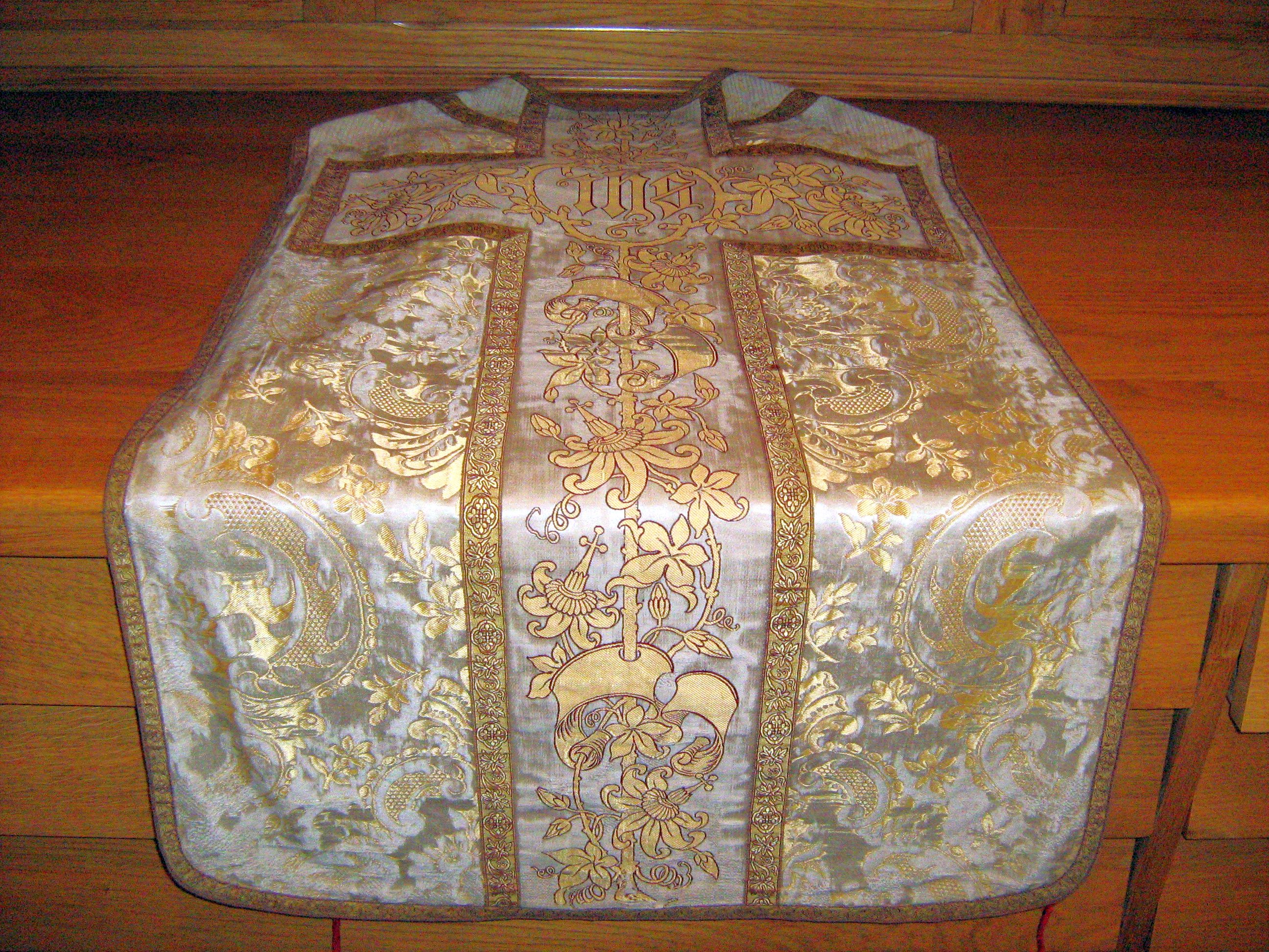 Detail of a chasuble